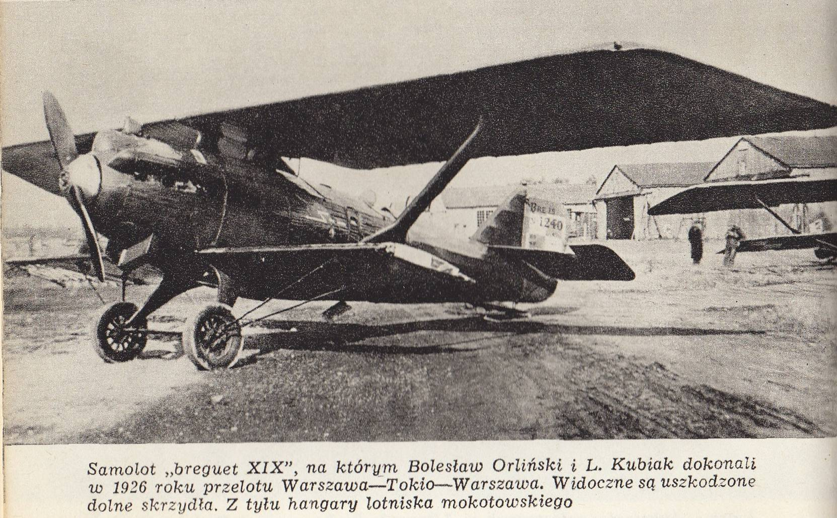 Damaged Breguet XIX used by Bolesław Orliński and Leon Kubiak to fly from Warsaw do Tokyo and back in 1926